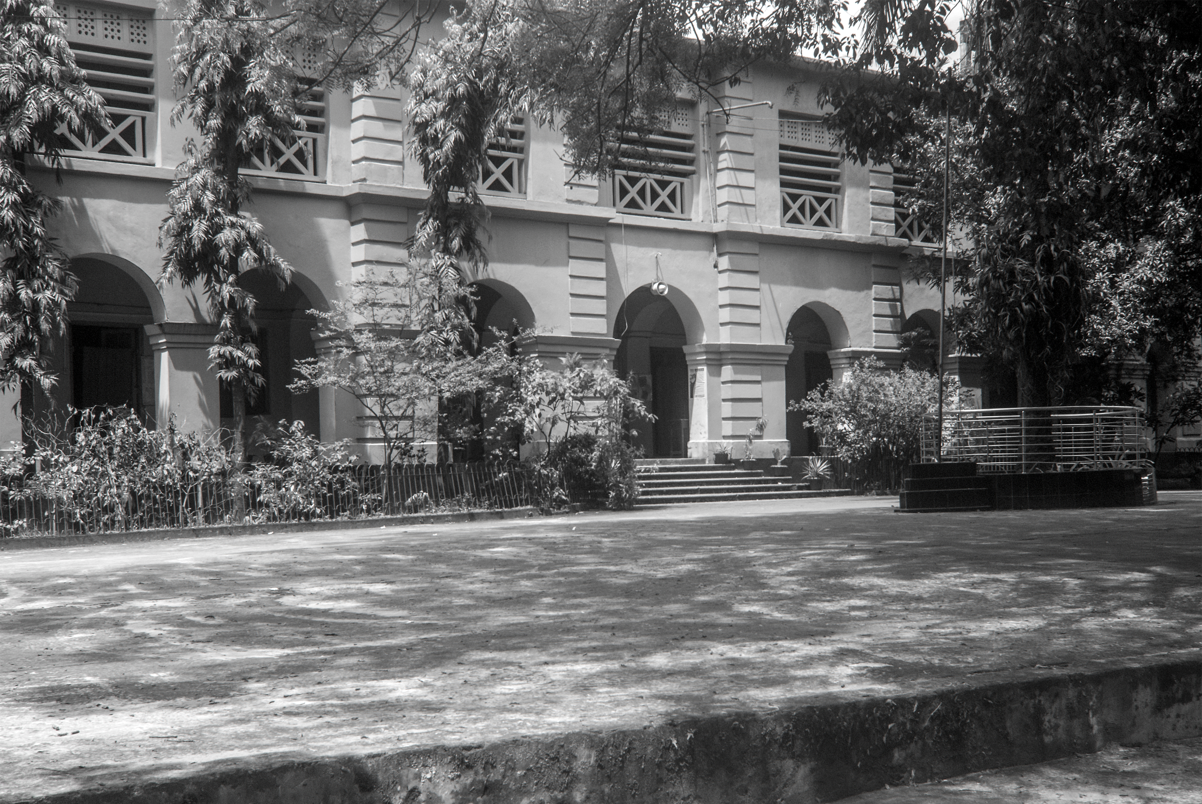 Administration Building, Dr. Khastagir Government Girls' High School